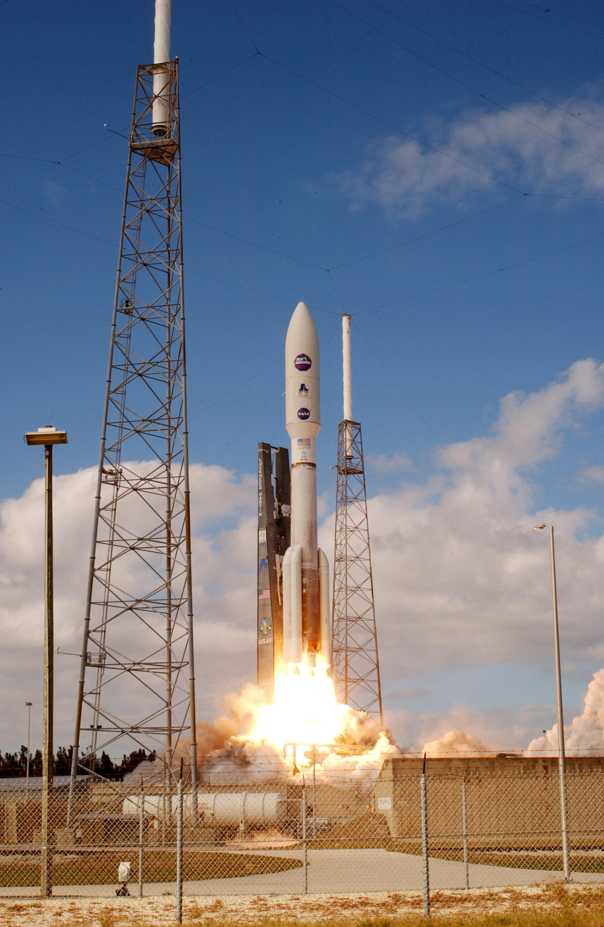 From between lightning masts surrounding the launch pad, NASA’s New Horizons spacecraft roars into the blue sky aboard an Atlas V rocket spewing flames and smoke. Liftoff was on time at 2 p.m. EST from Complex 41 on Cape Canaveral Air Force Station in Florida. This was the third launch attempt in as many days after scrubs due to weather concerns. The compact, 1,050-pound piano-sized probe will get a boost from a kick-stage solid propellant motor for its journey to Pluto. New Horizons will be the fastest spacecraft ever launched, reaching lunar orbit distance in just nine hours and passing Jupiter 13 months later. The New Horizons science payload, developed under direction of Southwest Research Institute, includes imaging infrared and ultraviolet spectrometers, a multi-color camera, a long-range telescopic camera, two particle spectrometers, a space-dust detector and a radio science experiment. The dust counter was designed and built by students at the University of Colorado, Boulder. The launch at this time allows New Horizons to fly past Jupiter in early 2007 and use the planet’s gravity as a slingshot toward Pluto. The Jupiter flyby trims the trip to Pluto by as many as five years and provides opportunities to test the spacecraft’s instruments and flyby capabilities on the Jupiter system. New Horizons could reach the Pluto system as early as mid-2015, conducting a five-month-long study possible only from the close-up vantage of a spacecraft.